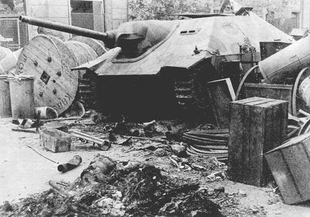 Warsaw Uprising - Polish barricade on the Napoleon square build around German Jagdpanzer 38(t) "Hetzer" tank captured by the Home Army.